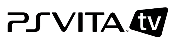 Logo of the PlayStation Vita TV in Japan and Asia (Hong Kong, Taiwan, South Korea, Singapore, Malaysia, etc).